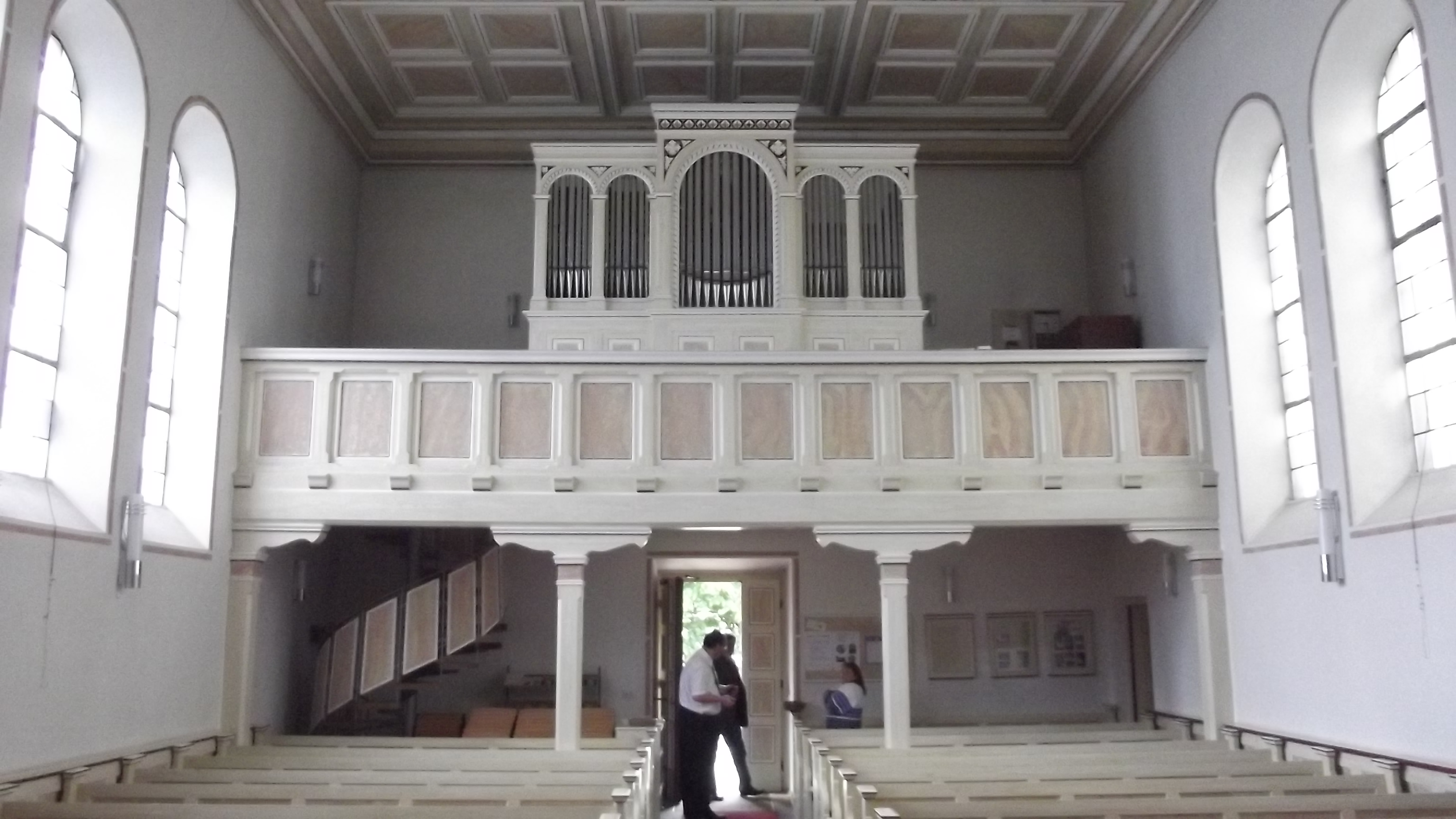 Interior of the protestant church in Hoof, Saarland